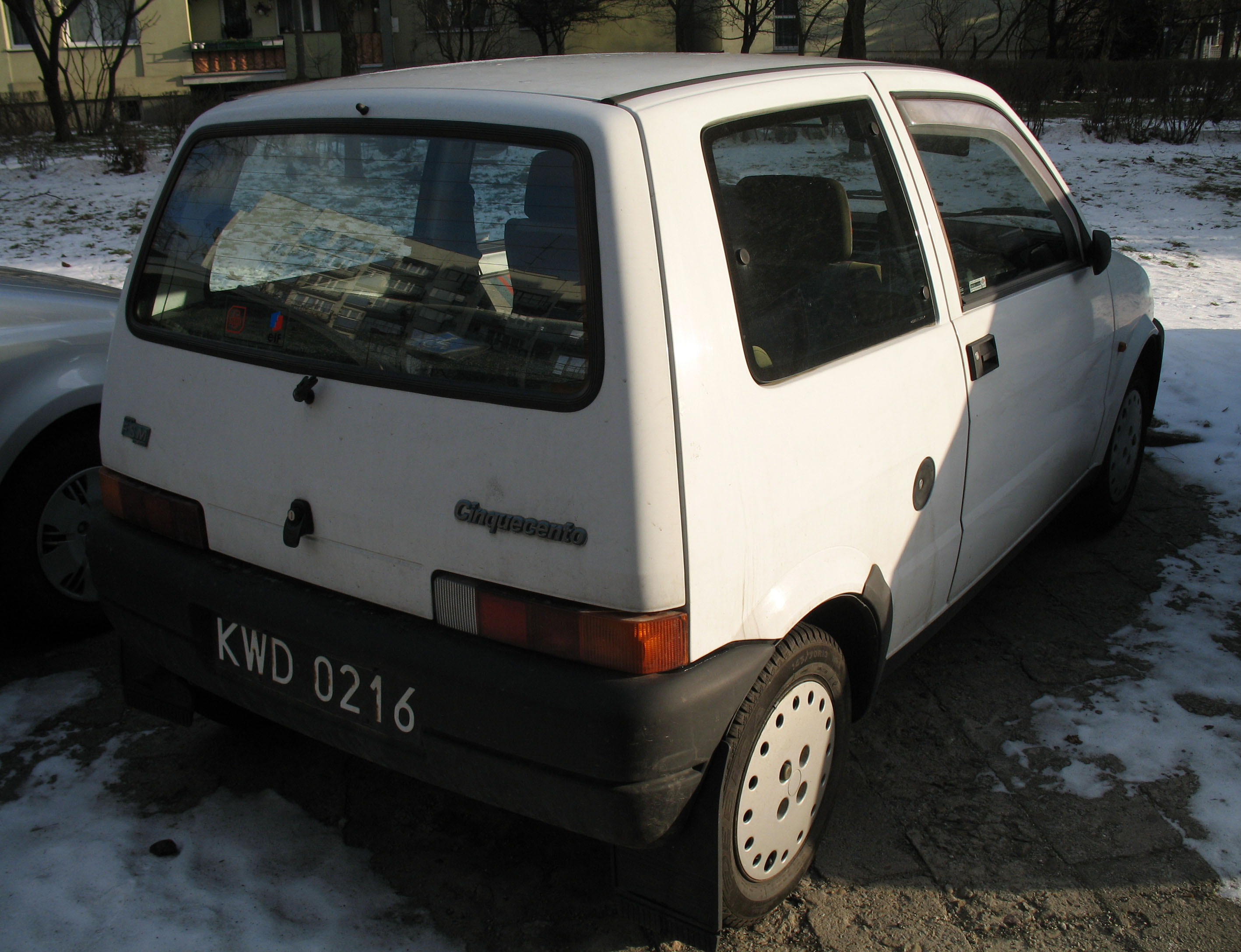 White Fiat FSM Cinquecento car in Kraków, Poland.